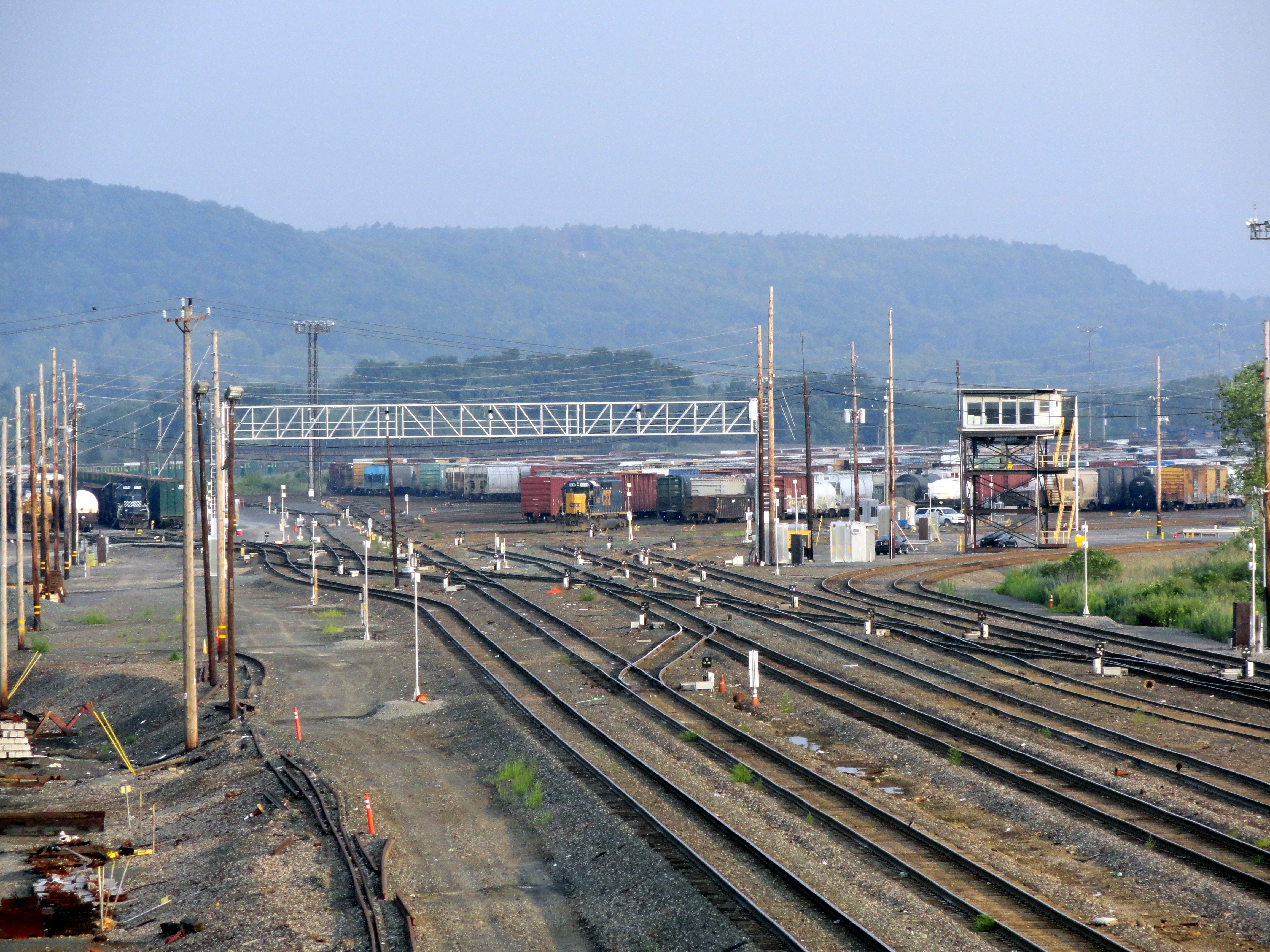 View of Selkirk Yard, south of Albany, New York. Looking west. Seen directly behind the pedestrian bridge is the northbound departure yard, which swings around to the right, behind the yardmaster tower. At the extreme left is the exit end of the classification yard. Blocks of cars are pulled out of the classification yard to one of the yard lead tracks, shown in the foreground, and then to one of the departure yards, for assembly into trains. The two tracks on the extreme right (just in front of the tower) lead to a local interchange yard.